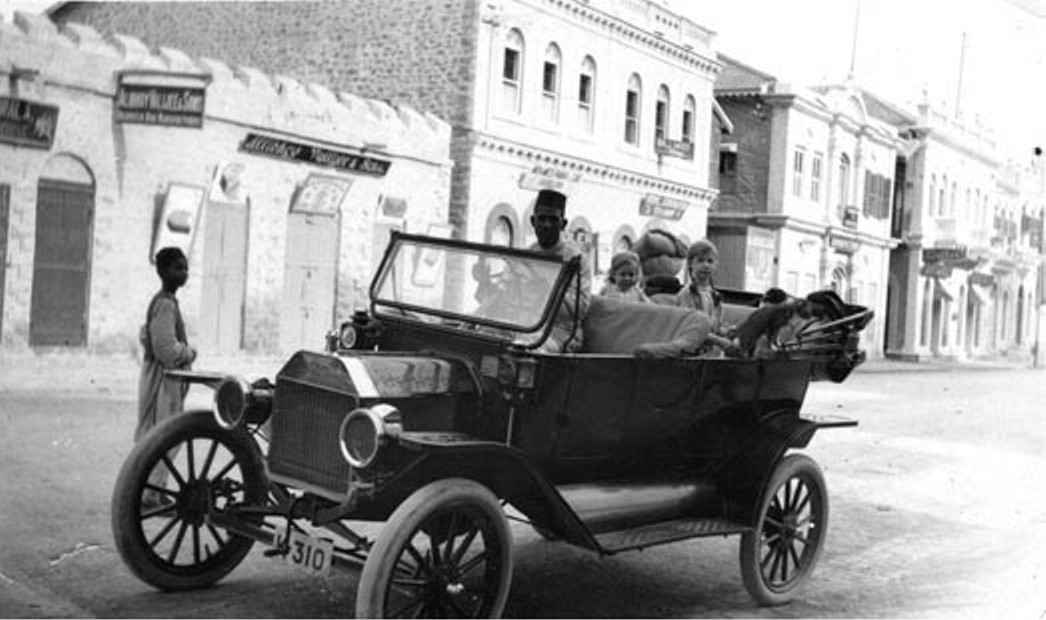 Picture of a British family's first car, a 1914 Ford Model T Touring Car, in Karachi on Elphinstone St., Karachi, Sind, Pakistan